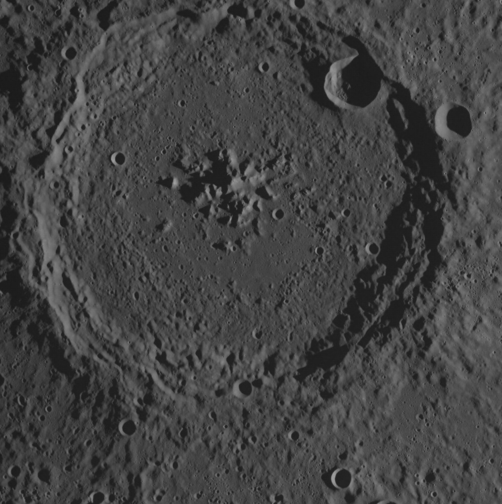 Verdi crater on Mercury. MESSENGER Wide Angle Camera. Approximate north is up. Emission Angle: 2.3 Incidence Angle: 81.3 Latitude: 63.9 Longitude: 190.3 Phase Angle: 83.6